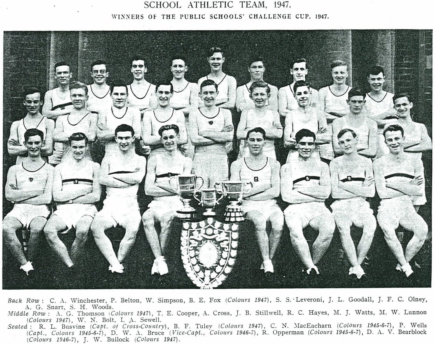 Queen Elizabeths School Athletic Team 1947. Winners of Public Schools Challenge Cup